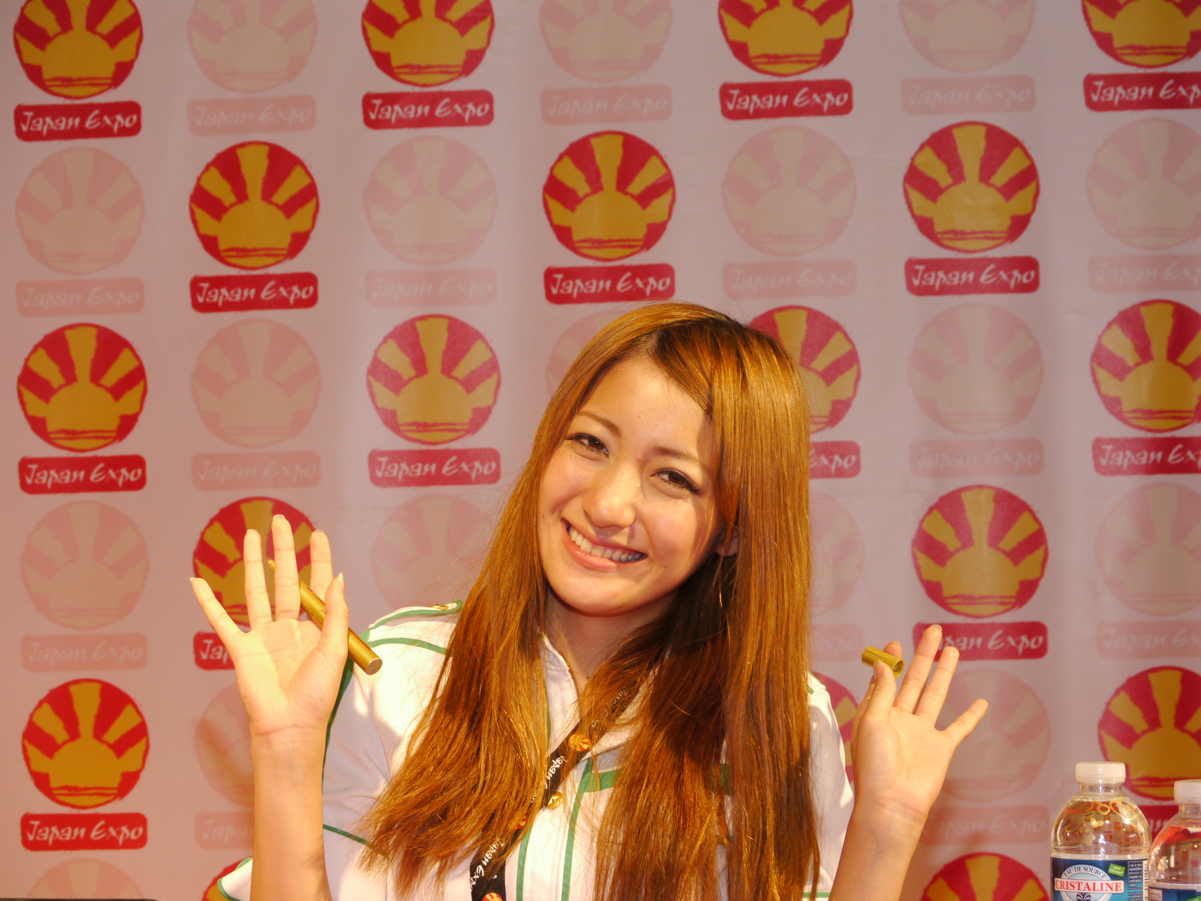 Japan Expo Festival, 12th impact